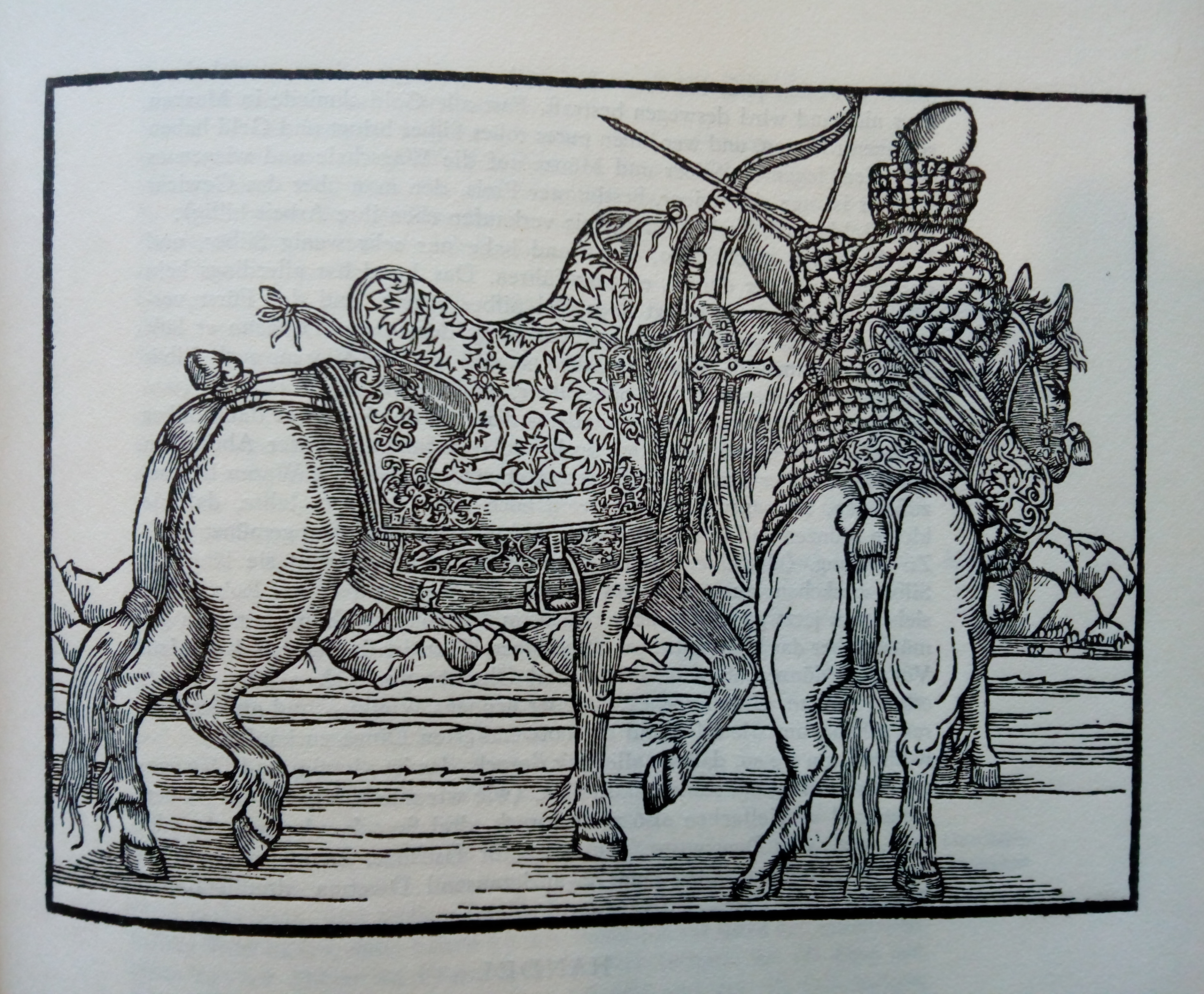 Mounted archer and another horse, Muscovy, 16th c., acc. to Sigmund von Herberstein